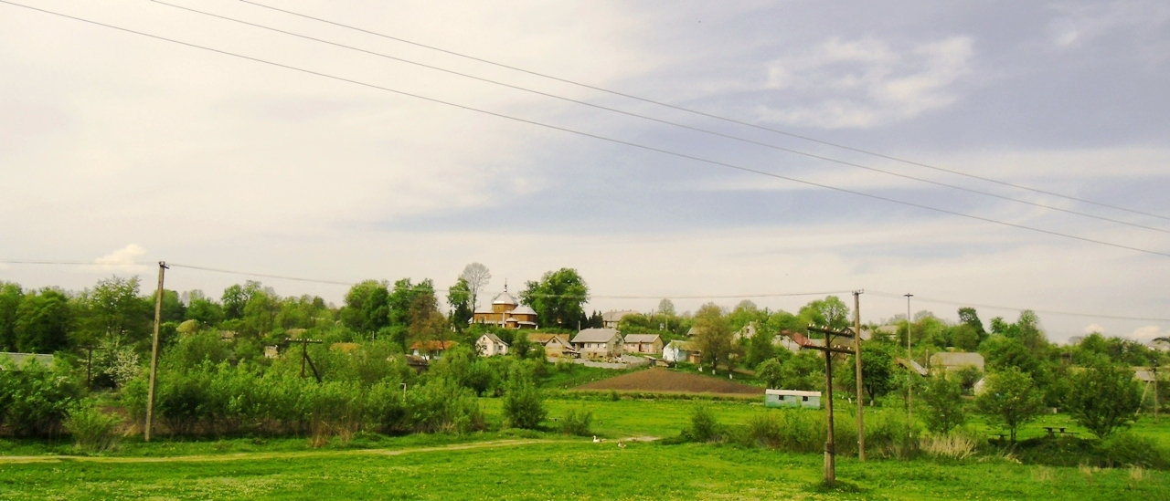 Village Hradivka, Horodotskyi district. Panoramic photo.